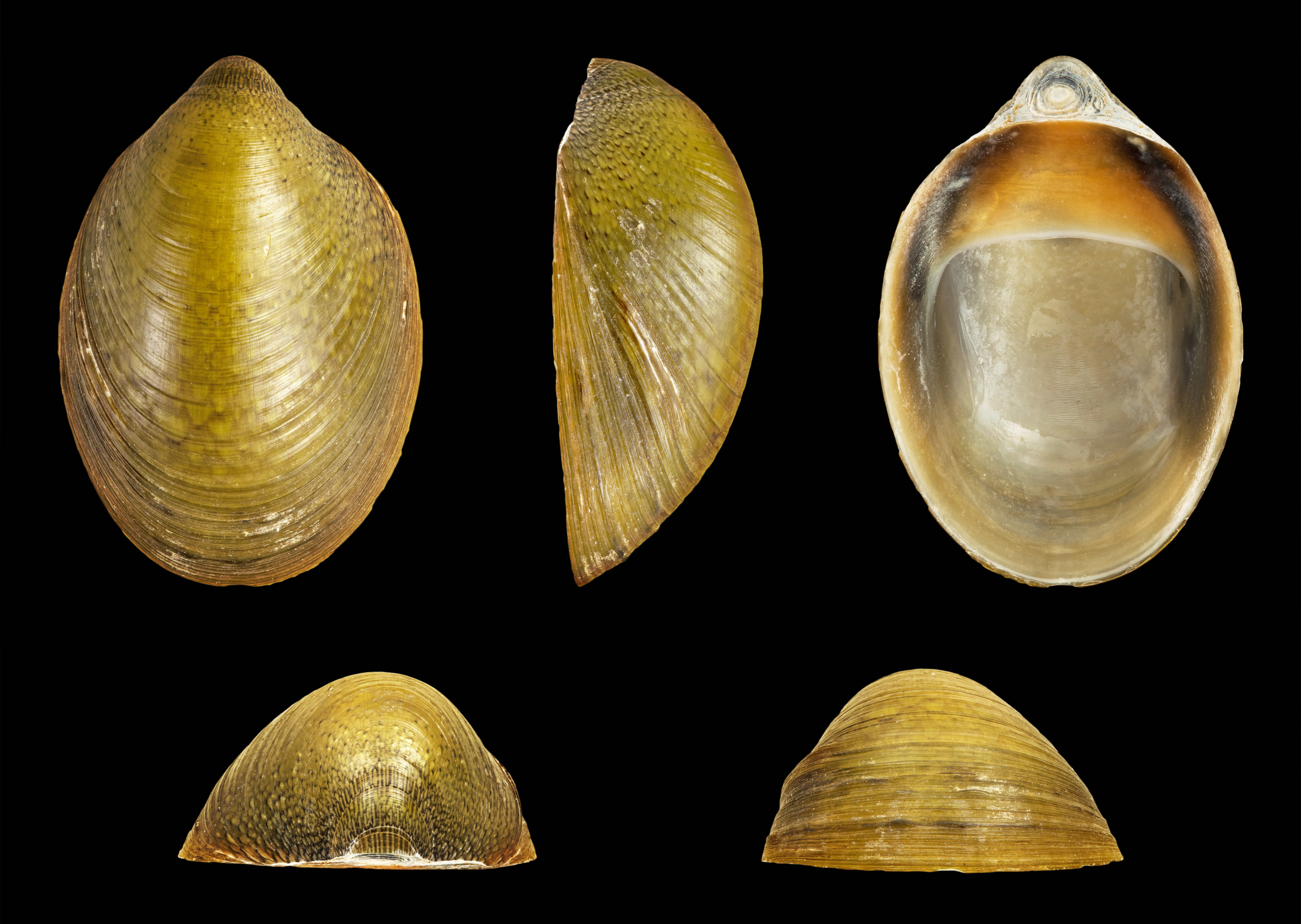 Septaria luzonica (Souleyet, 1841); Length 2.1 cm; Originating from the north of Luzon, Philippines; Shell of own collection, therefore not geocoded.